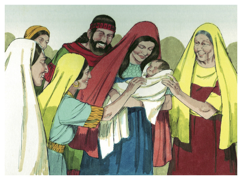 Biblical illustration of Book of Ruth Chapter 4